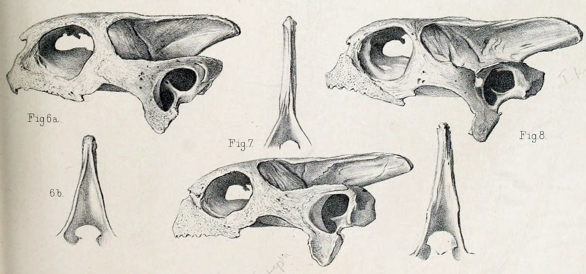 Skull of Cylindraspis sp (8), skull of Cylindraspis inepta (7), skull of Cylindraspis triserrata (8).